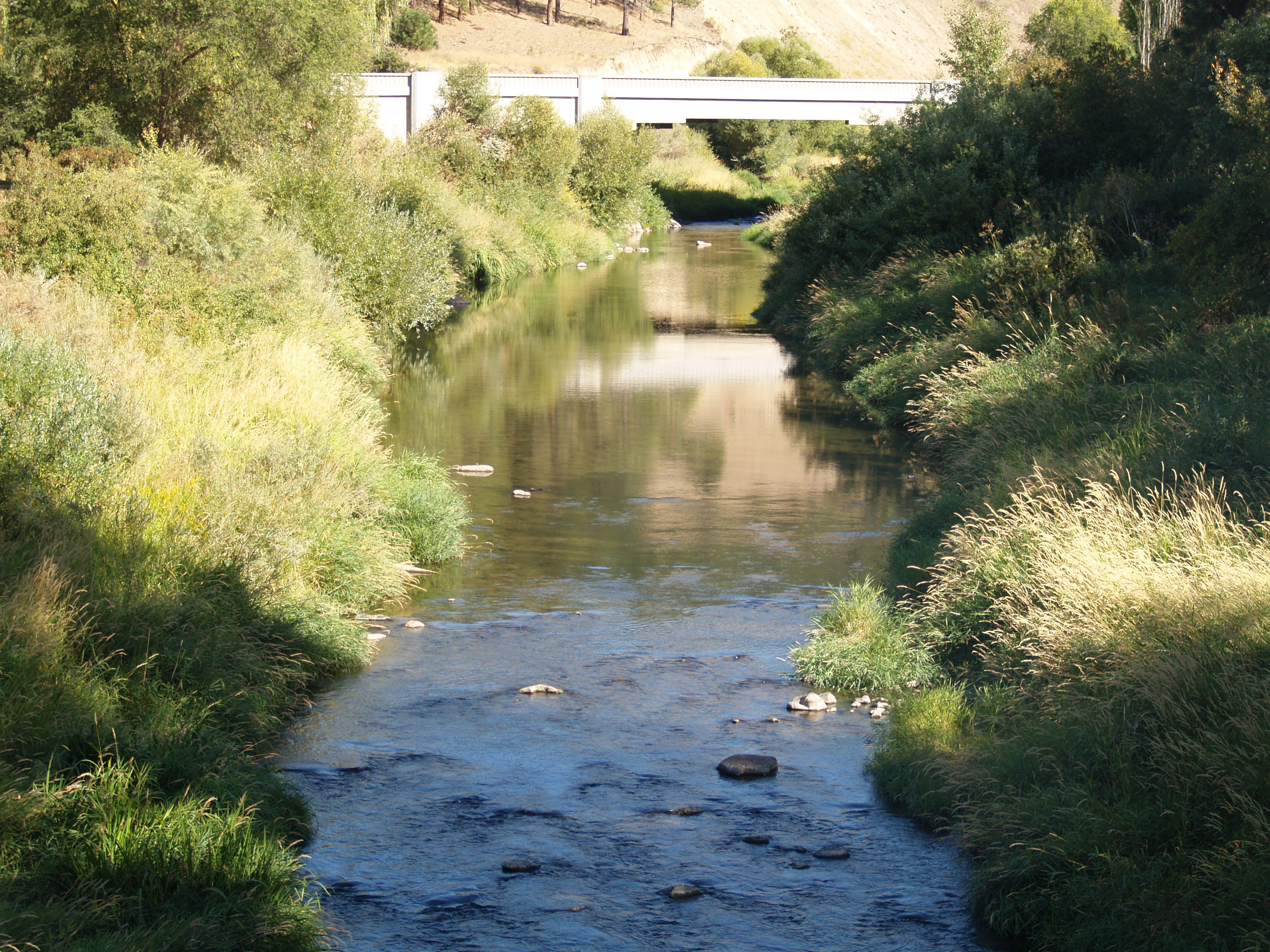 Latah Creek as it flows through the Latah Valley/Vinegar Flats neighborhood of Spokane, WA. The photo was taken on the Chestnut St. Bridge looking towards Inland Empire Way.